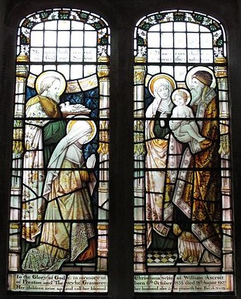 Window on the north side of St Oswald's Church, Grasmere, Cumbria. The window was produced by the firm of Shrigley and Hunt c. 1926, and depicts the Presentation of Jesus at the Temple.